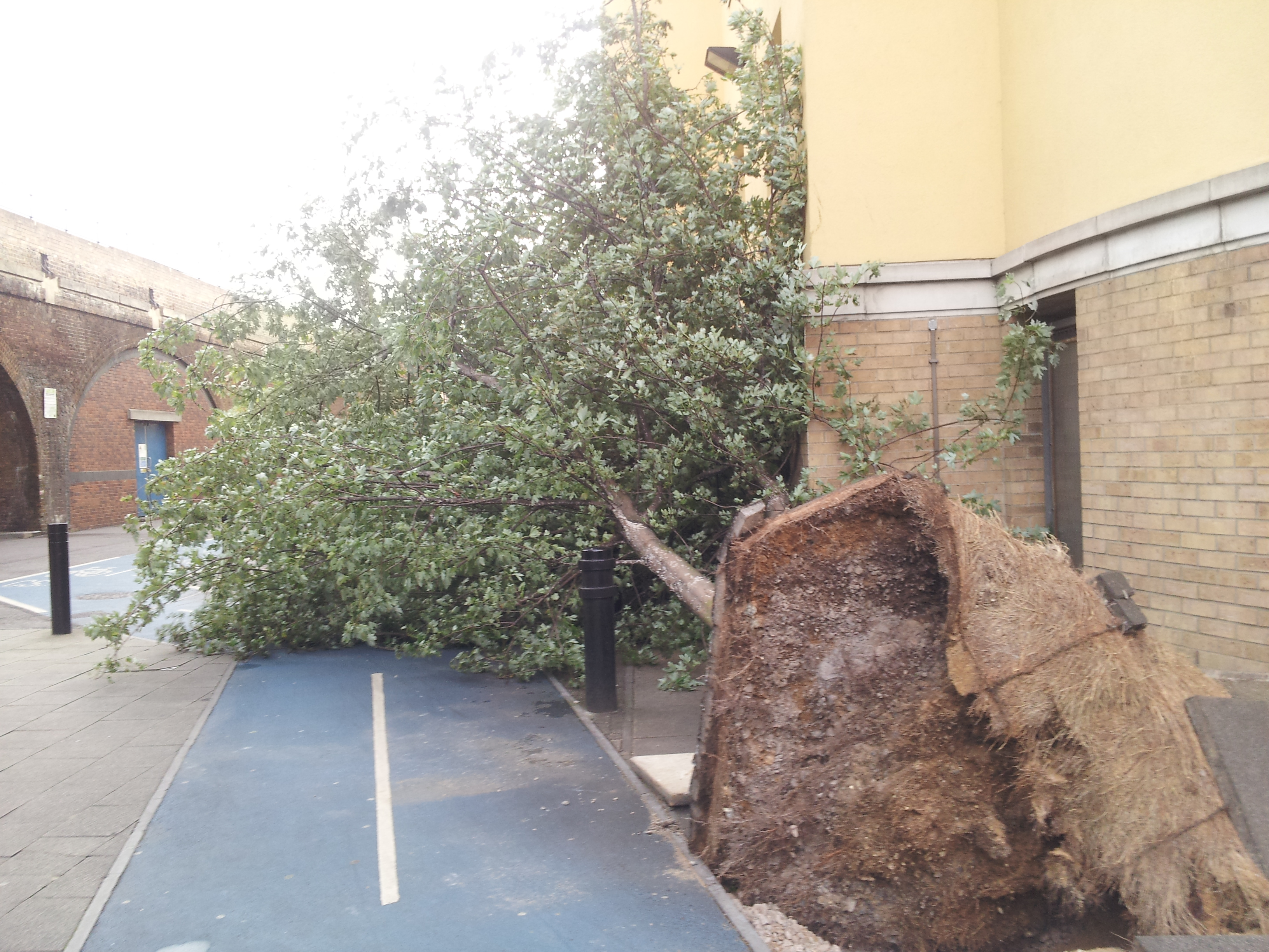 A tree which has been uprooted and has fallen over Cycle Superhighway 3 in London. The picture was taken during the morning of 28 October, next to Westferry Station.